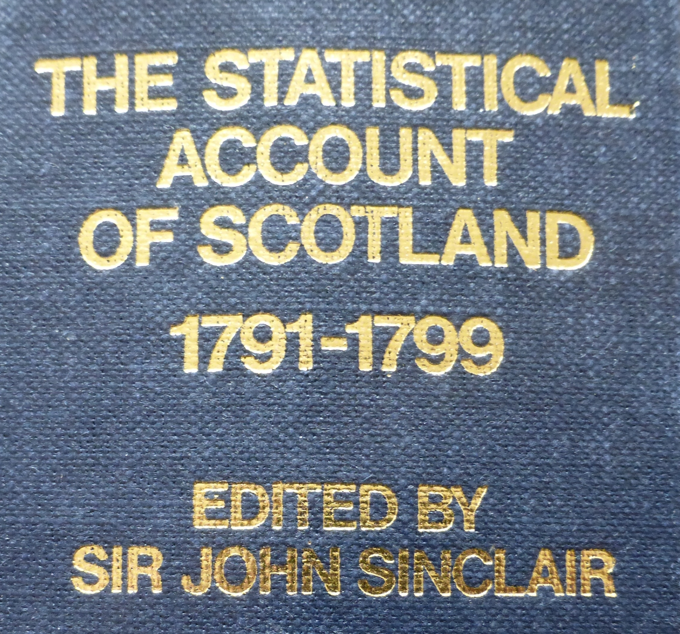 O.S.A. book spine title